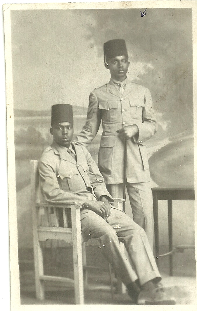 مصطفى أفندي واقفا و حسن فضل المولى( الذي أعدمته سلطة الإحتلال البريطاني رميا بالرصاص سنة 1924 م)